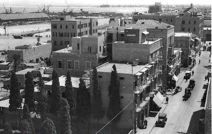 Jaffa St. Haifa